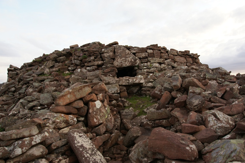 Clachtoll Broch, Sutherland, Scotland